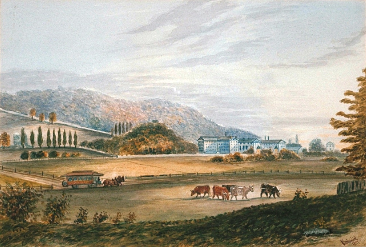 Painting, Montreal and the Sulpician Seminary, Watercolour and graphite on paper, 22.2 x 32.5 cm